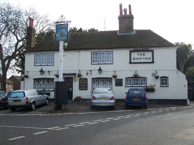 The Ship Inn, Southfleet On junction of Red Street (on left) and Hook Green Road (on right).